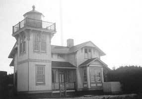 Public Domain statement here; CIRCA 1911, SHOWING THE TABLE BLUFF LIGHT TOWER AND ATTACHED DWELLING